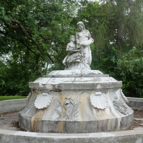 Circa 2014, current condition of the fountain